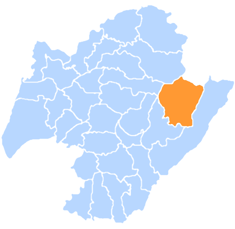 Nanshi